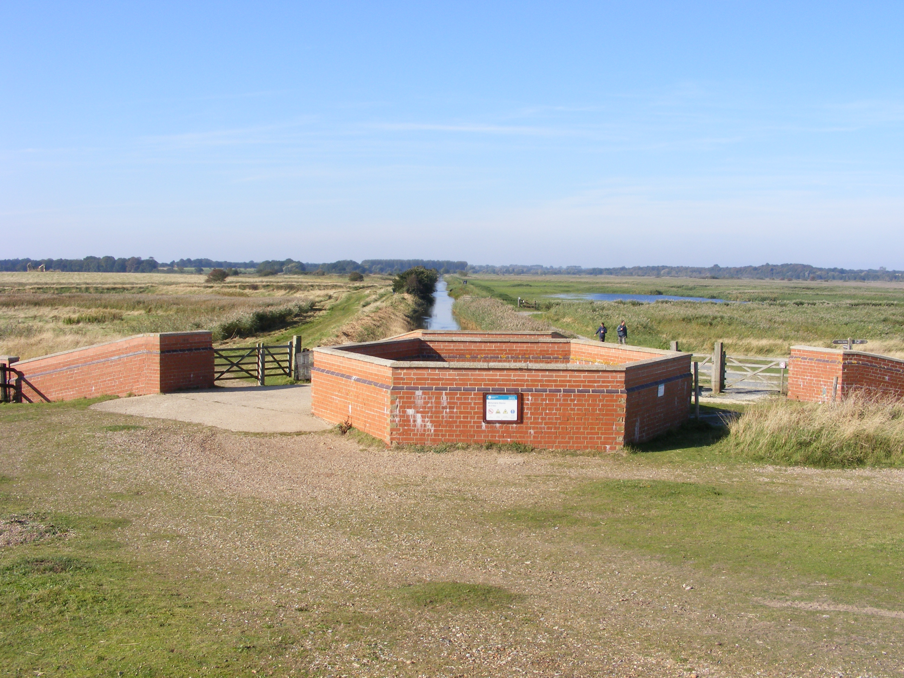 Minsmere Beach, The Sluice The view towards Eastbridge from The Sluice adjacent to Minsmere Beach.